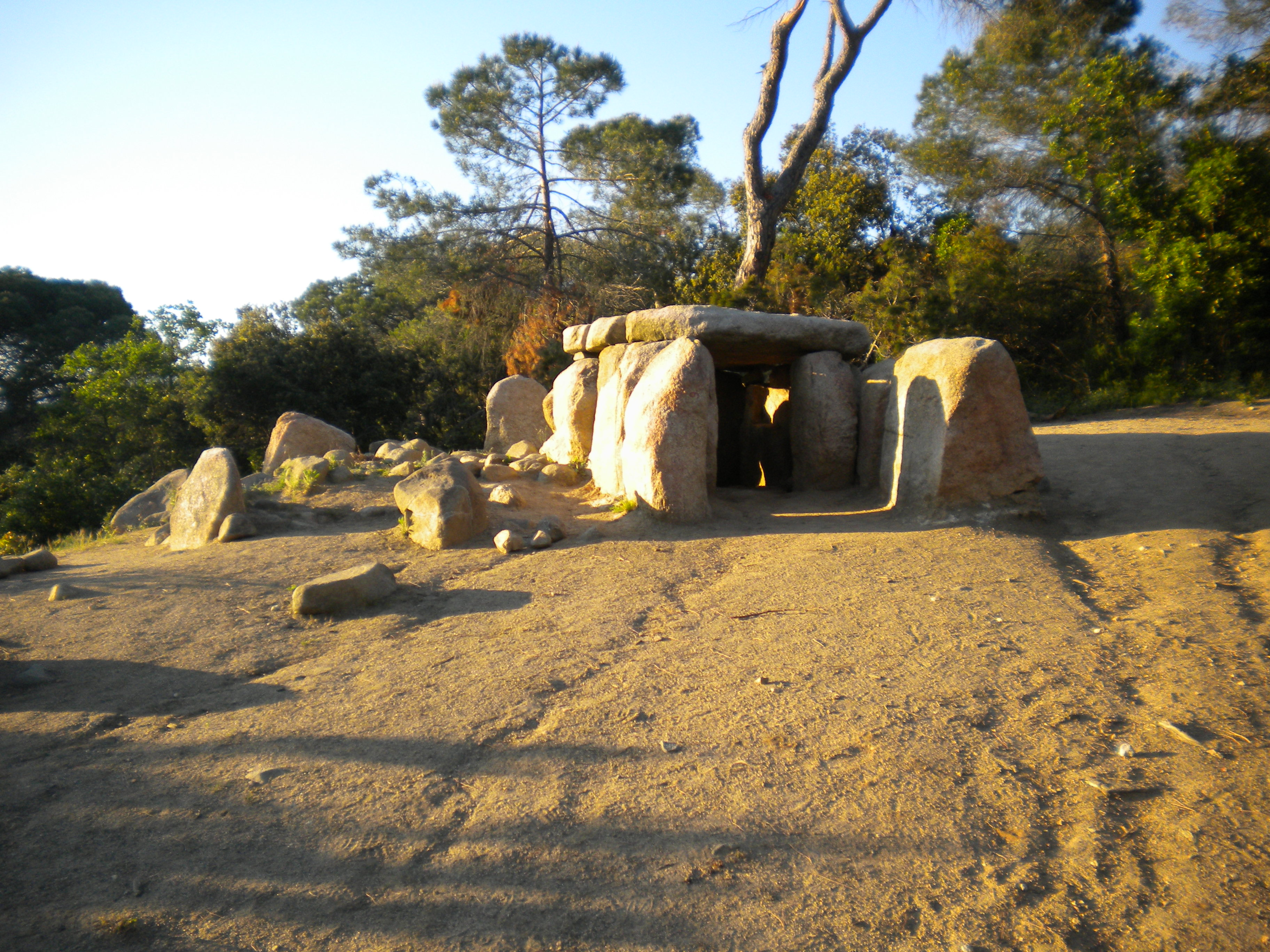 Dolmen de Ca l'Arenes megalithic tomb, date from the late Neolithic period, (3000 to 2500 BC) restored in 2006. It is situated in Montnegre i el Corredor Natural Park.